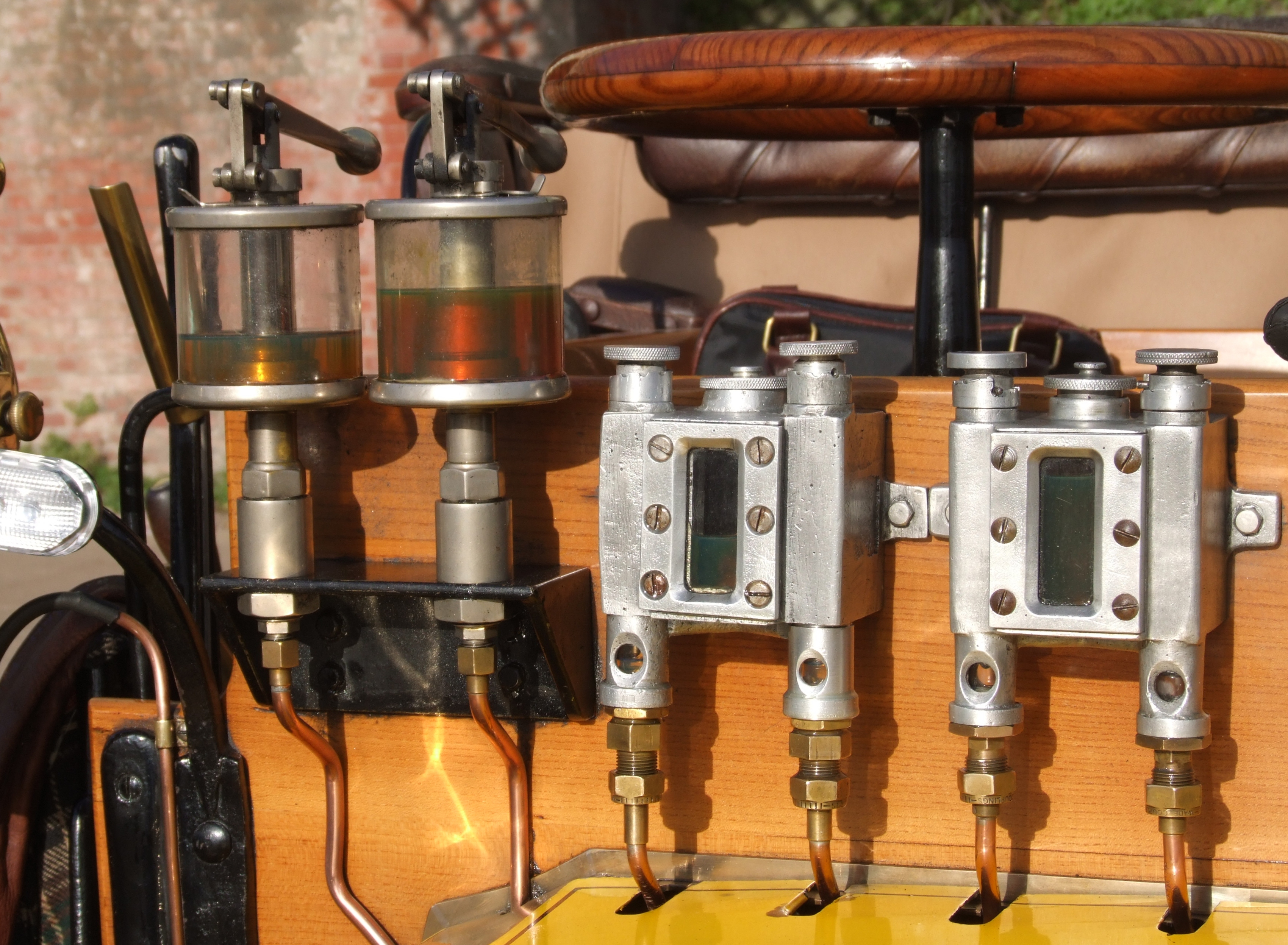 Lubricators on car dashboard 1902